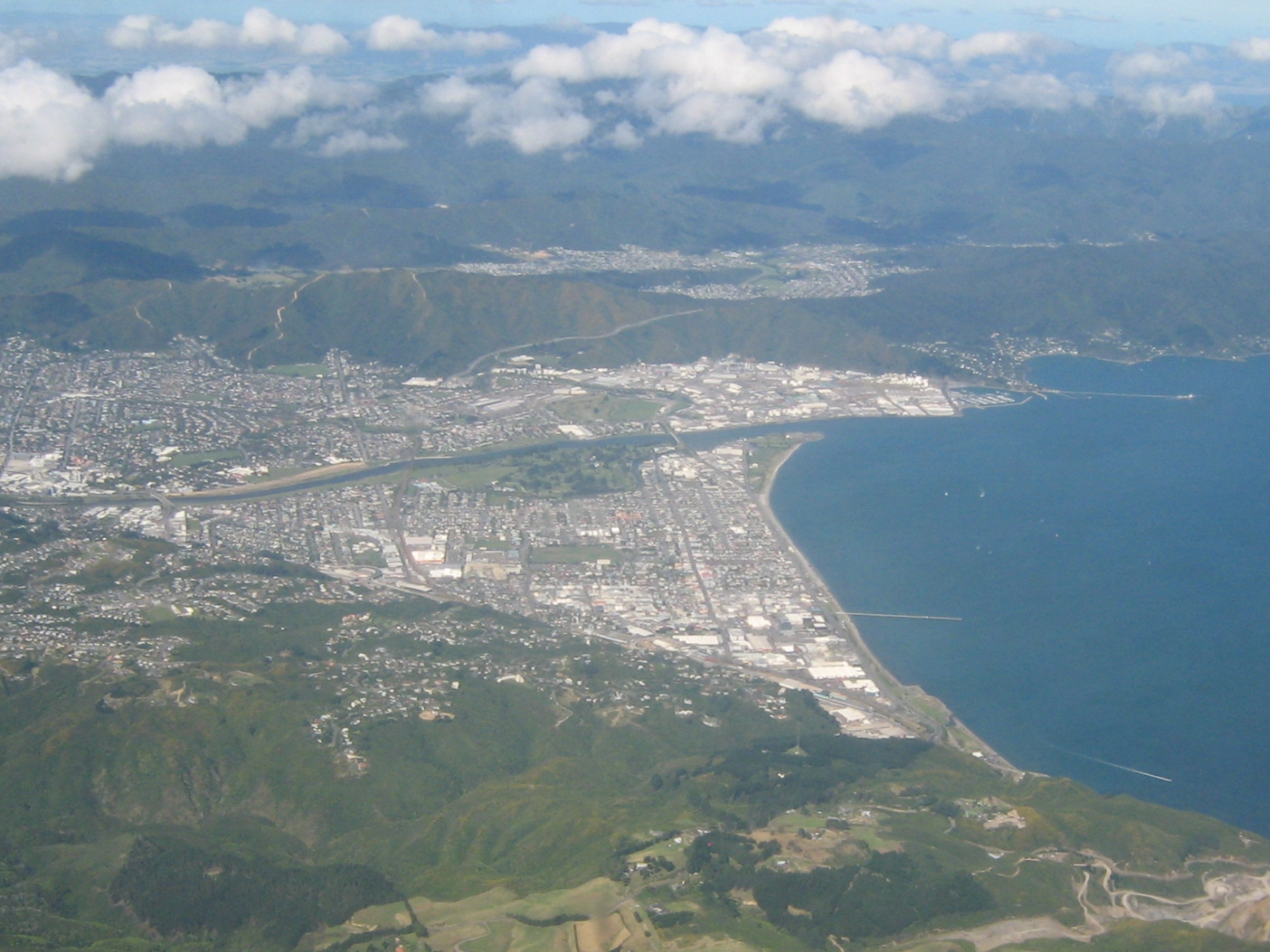 Lower Hutt in New Zealand. Looking eastwards from a flight to Auckland.